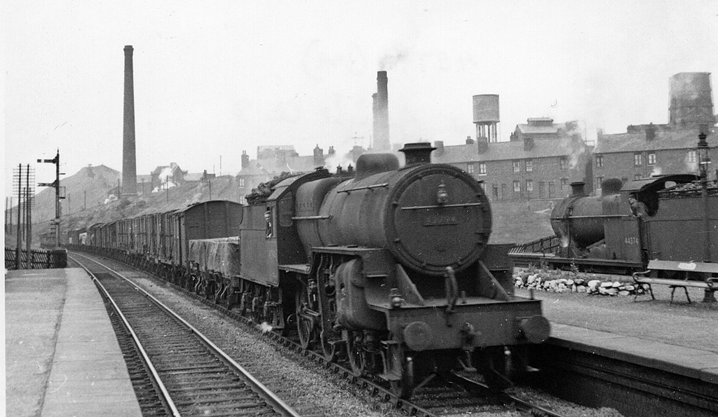 Up fast freight train passing Royston & Notton station. View northward, towards Normanton and Leeds; ex-Midland main line Sheffield - Leeds, part of the Midland trunk route London - Sheffield - Leeds - Carlisle, but a section demoted/closed in the 1960s owing to mining subsidence. In 1951 the section was still very busy: the Up Class D freight (headed by Hughes/Fowler 5P4F 2-6-0 No. 42794) is on the Fast lines, while across the platform on the Slows lines a Down freight passes with LMS 4F 0-6-0 No. 44374. Behind is New Monckton Colliery.